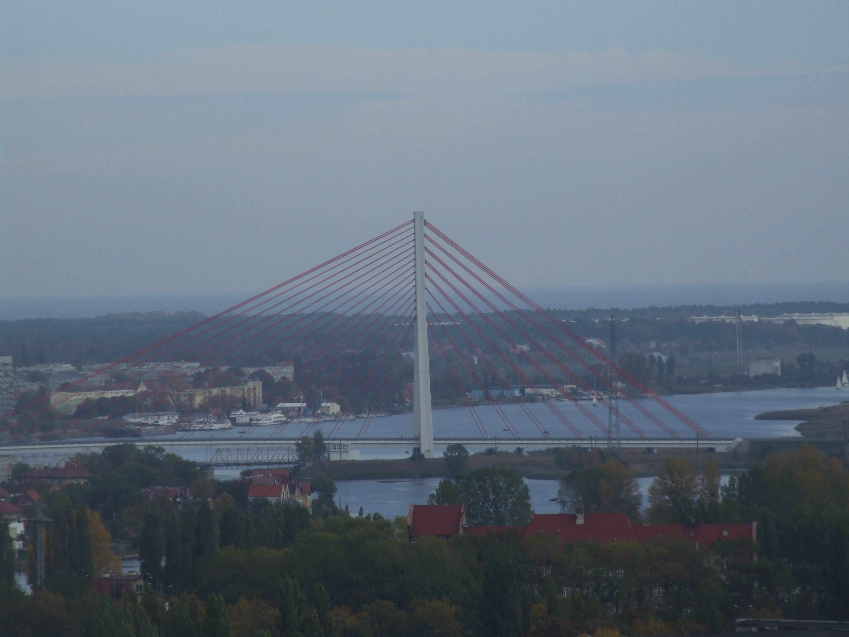 John Paul II Bridge in Gdańsk (Poland).